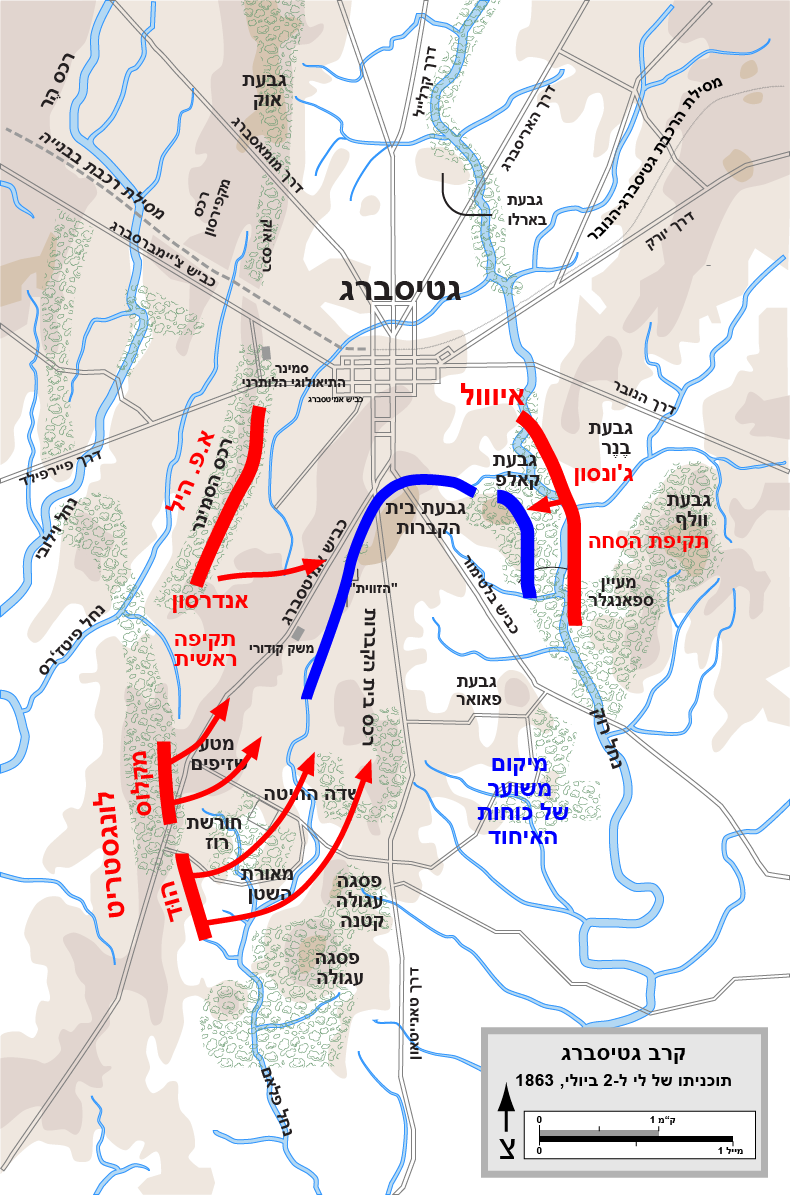 Map of the Battle of Gettysburg of the American Civil War. Drawn in Adobe Illustrator CS5 by Hal Jespersen. Graphic source file is available at